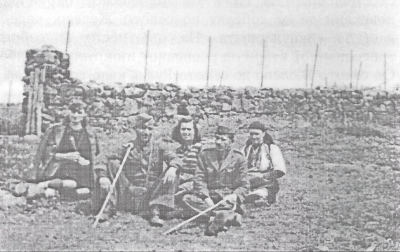 Headquarters-of-the-Lerin-district